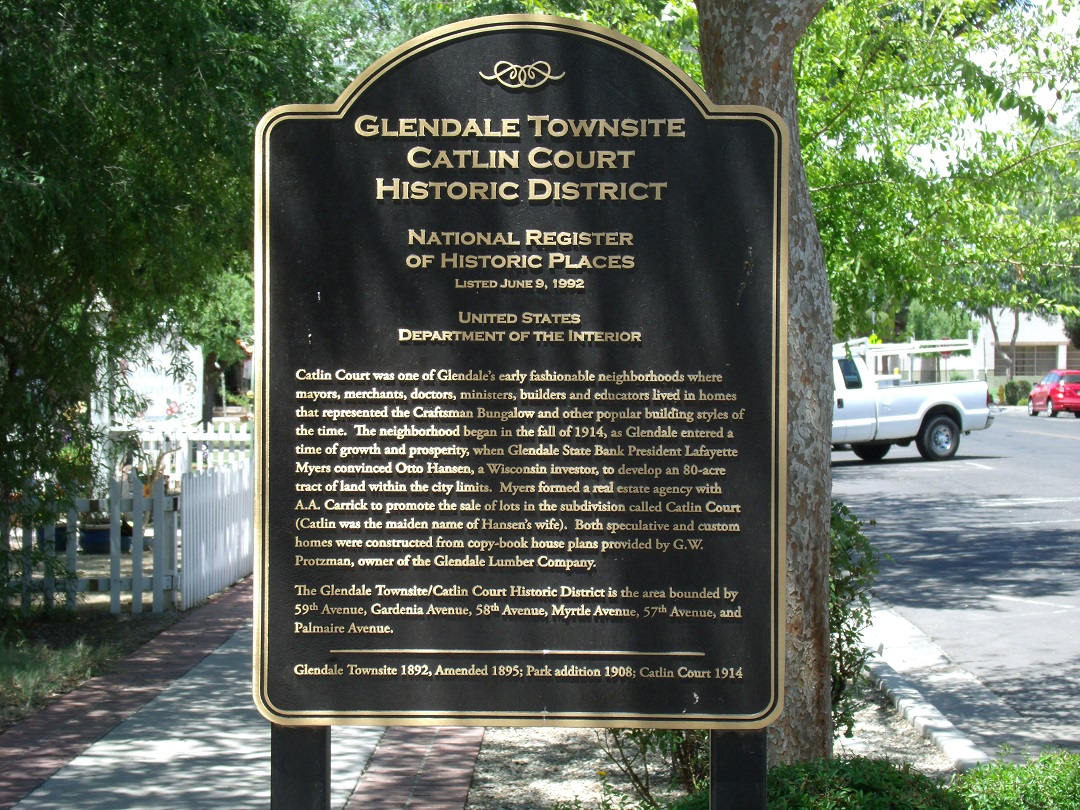 National Register of Historic Places “Catlin Court Historic District” Marker. National Register of Historic Places #92000680. Plaque